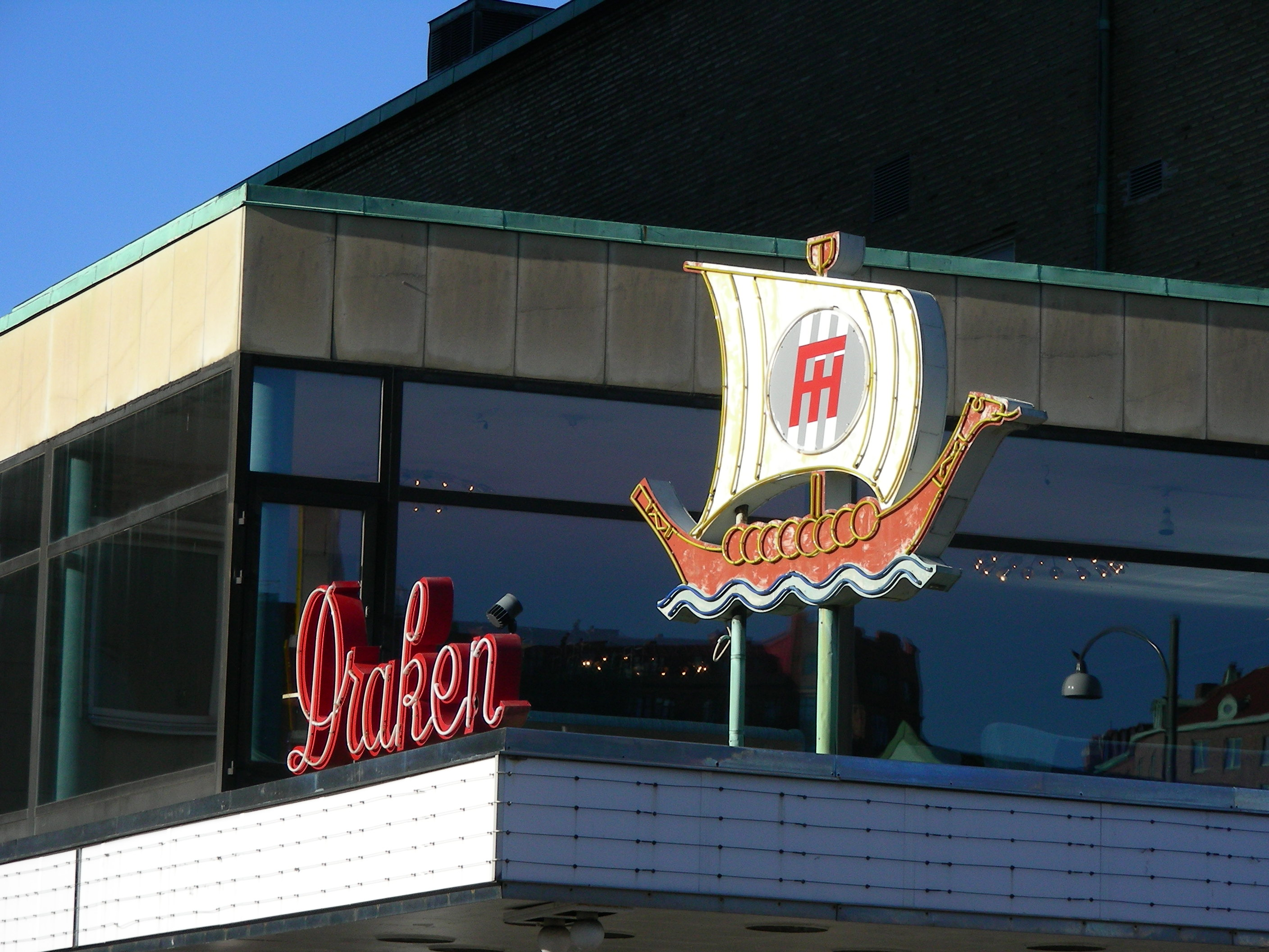 Draken, big screen cinema from 1956 (Draken (biograf, Göteborg) Camera: Nikon Coolpix S4 Location: Järntorget, Gothenburg, Sweden.